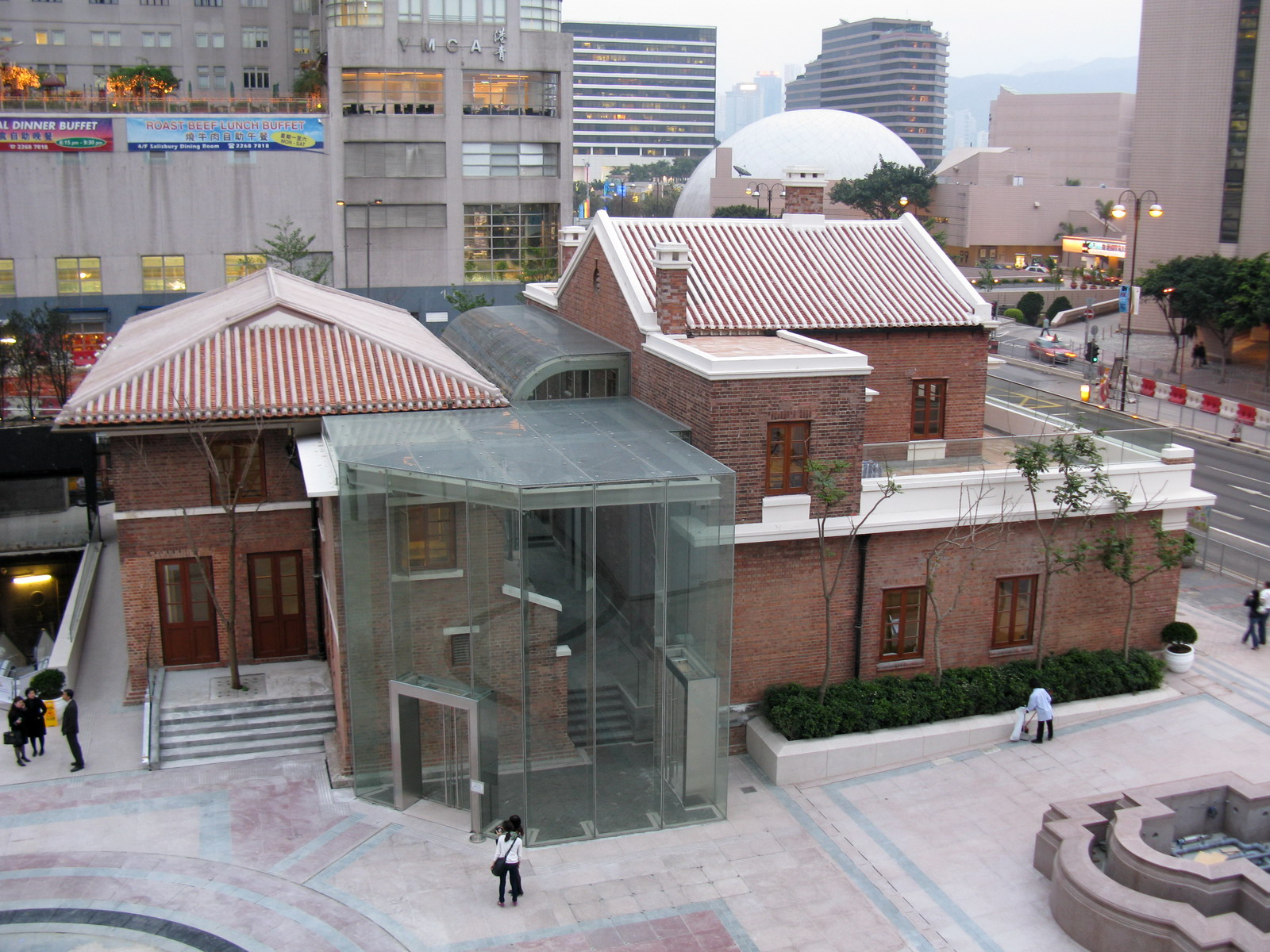 Old Kowloon Fire Station after renovation